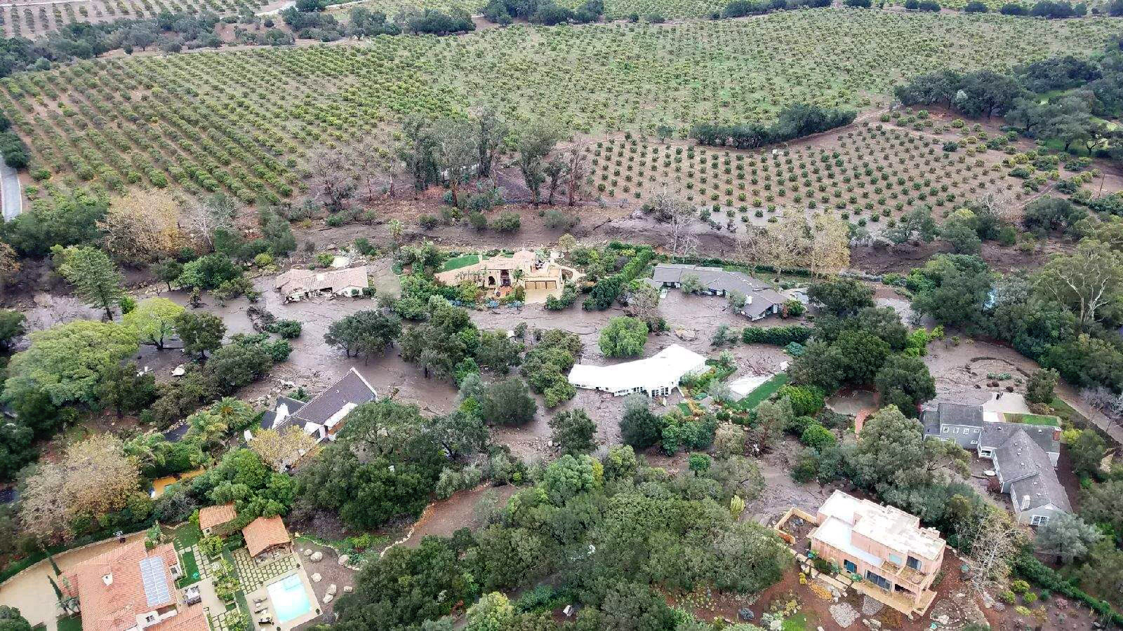 Homes and streets of a neighborhood affected by the Santa Barbara County mudslides in Santa Barbara, California are shown, Jan. 9, 2018, from the perspective of a Coast Guard MH-65 Dolphin helicopter crew involved in rescuing injured and stranded victims. Coast Guard helicopters were dispatched from Los Angeles-Long Beach and San Diego to assist local first responders with rescue efforts. (U.S. Coast Guard photo)